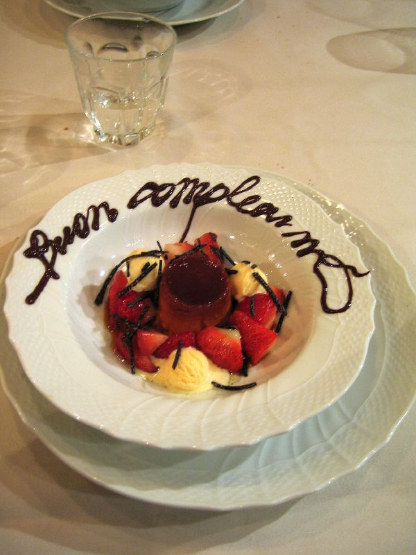 k wrote "Buon compleanno" for me with chocolat! @passo a passo, monzen-nakacho